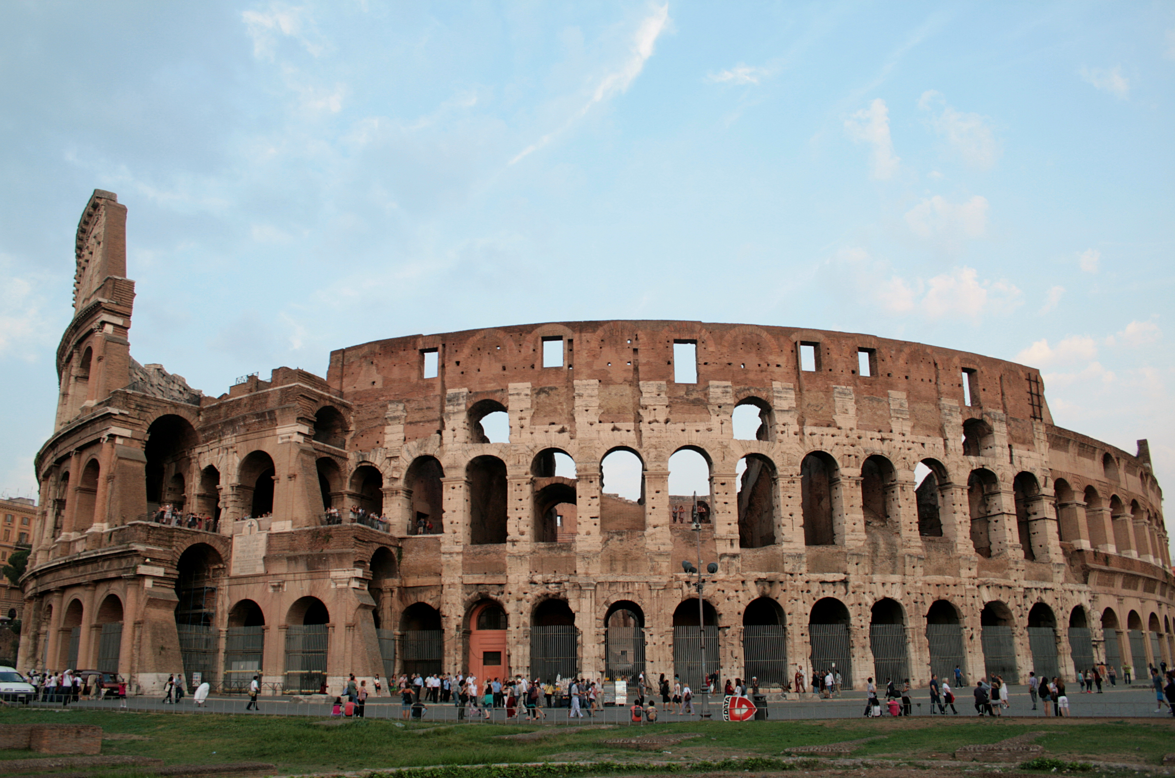 Western side of the Colosseum or Flavian amphitheatre, 70/72 - 80 DC in Rome.